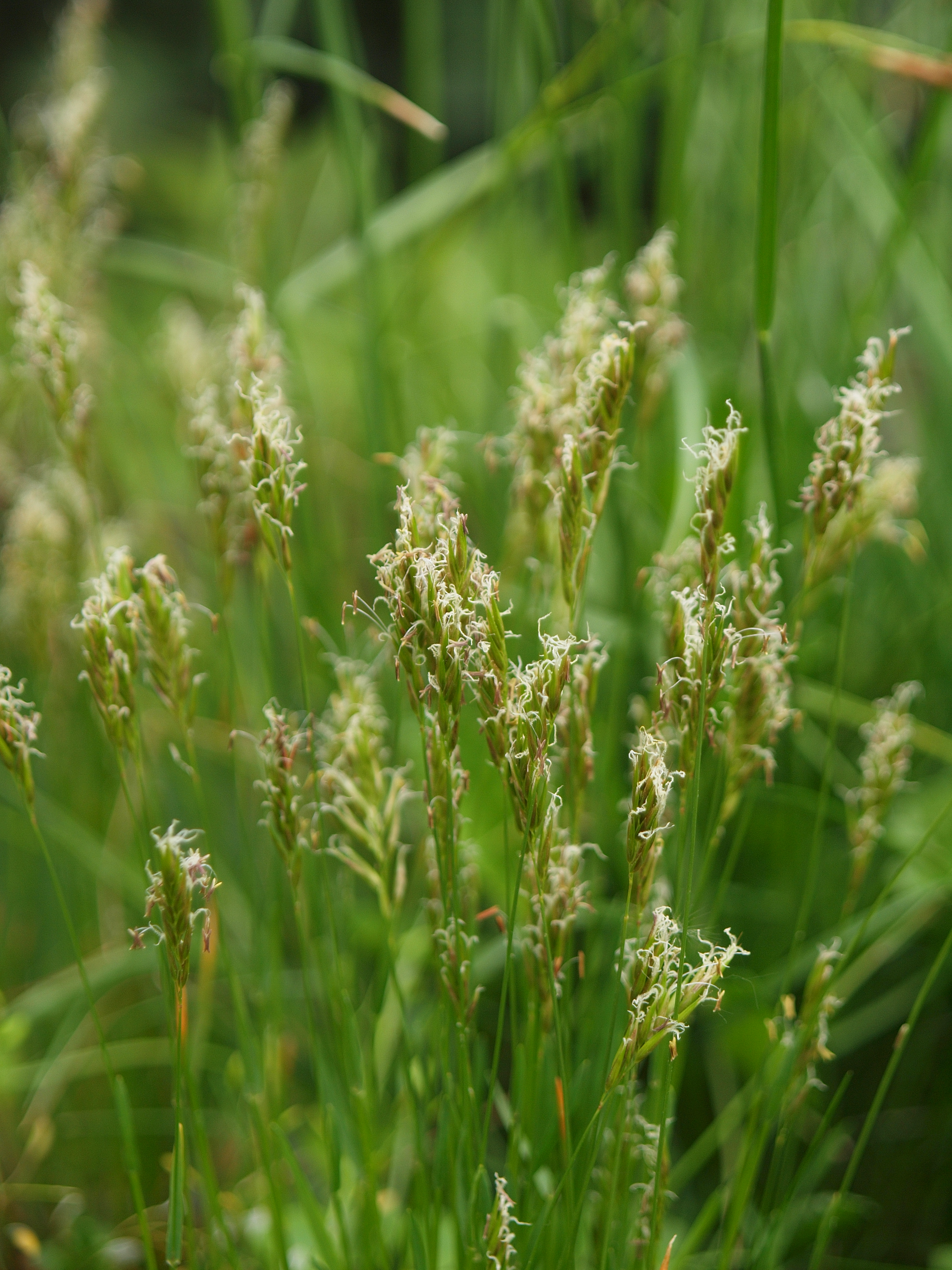 Anthoxanthum alpinum subadriatic Dinaric alps, Borovi do, Bijela gora leg Pavle Cikovac